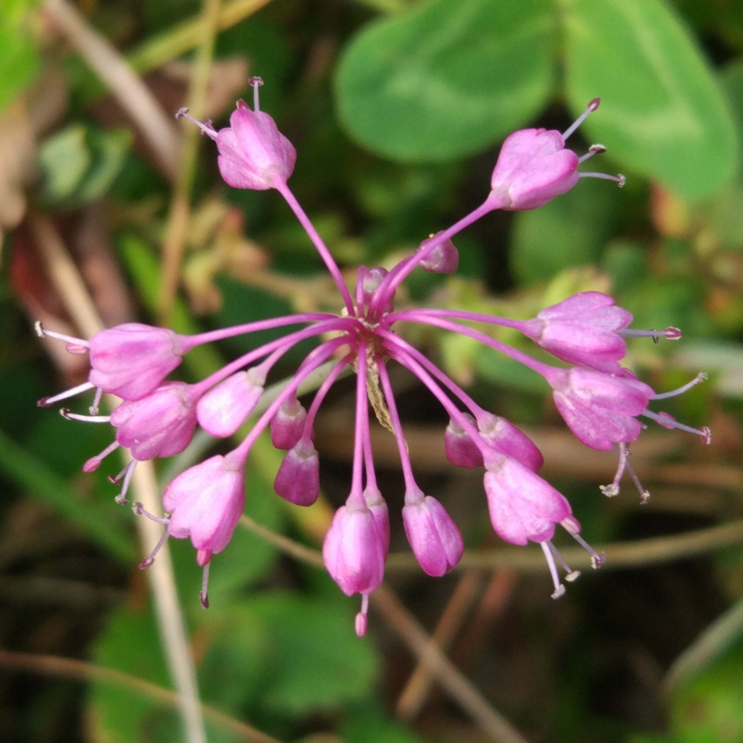 Allium olympicum